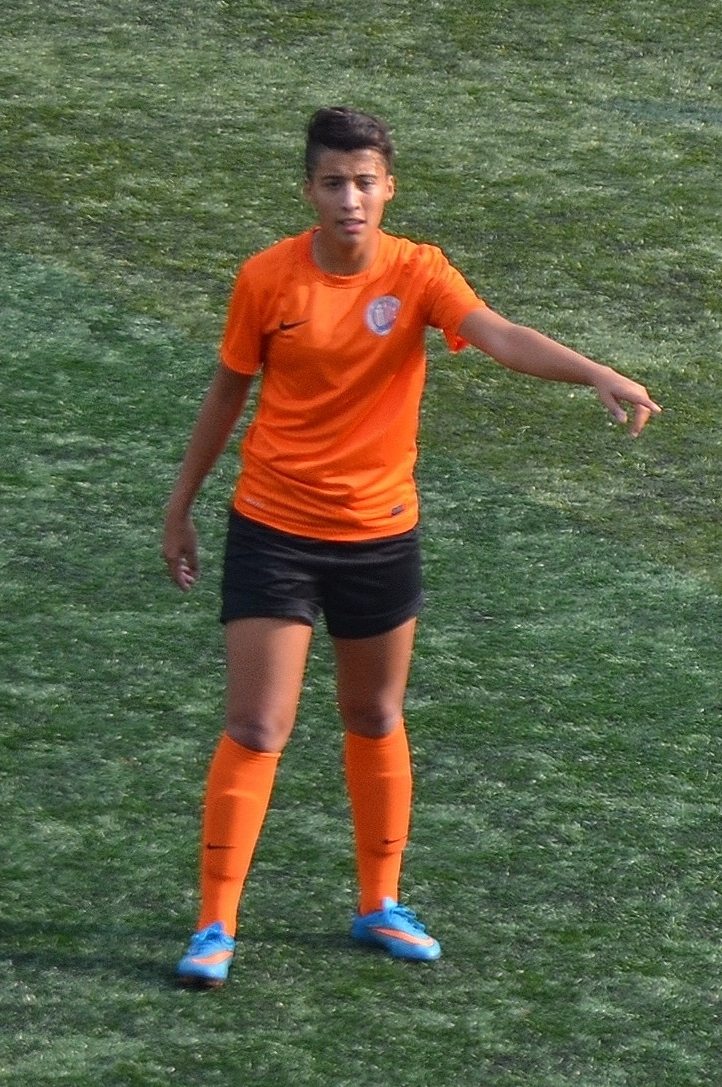 Büşra Demirörs playing for 1207 Antalya Muratpaşa Belediye Spor in the 2015-16 season away match.